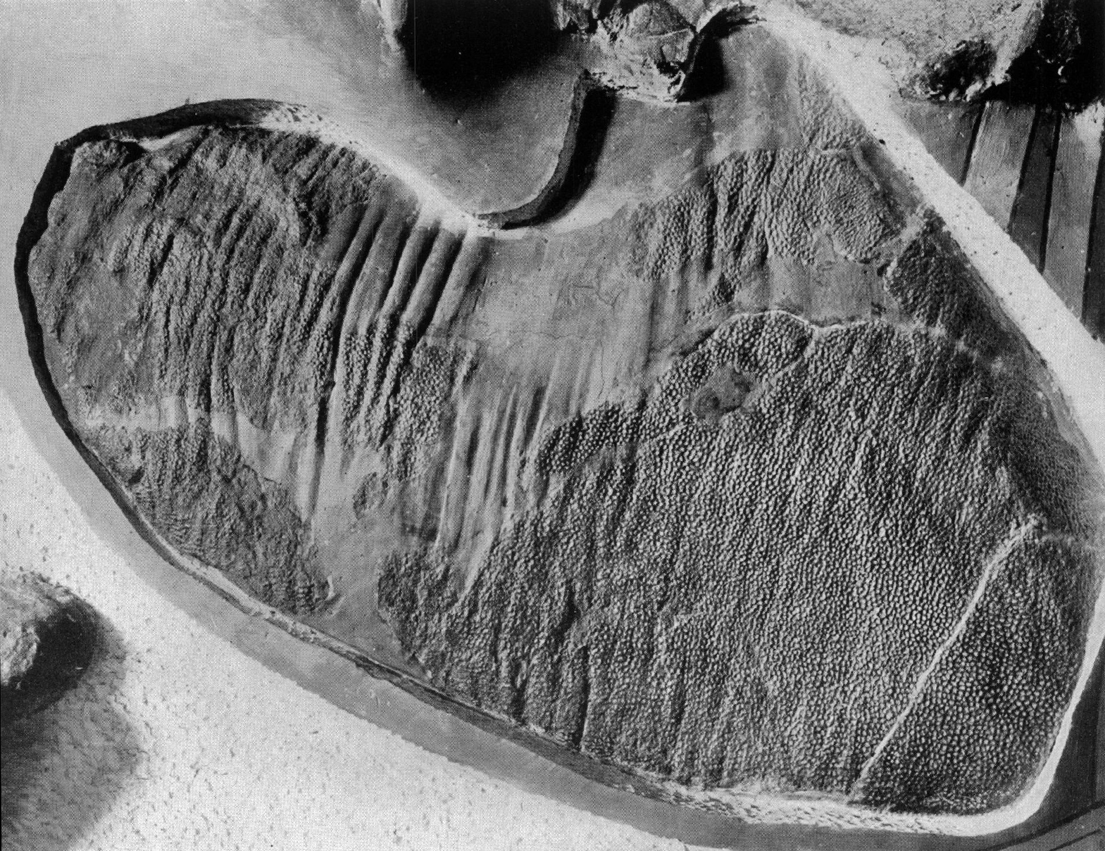 Photo of abdominal skin impressions of Corythosaurus, photographed in 1914